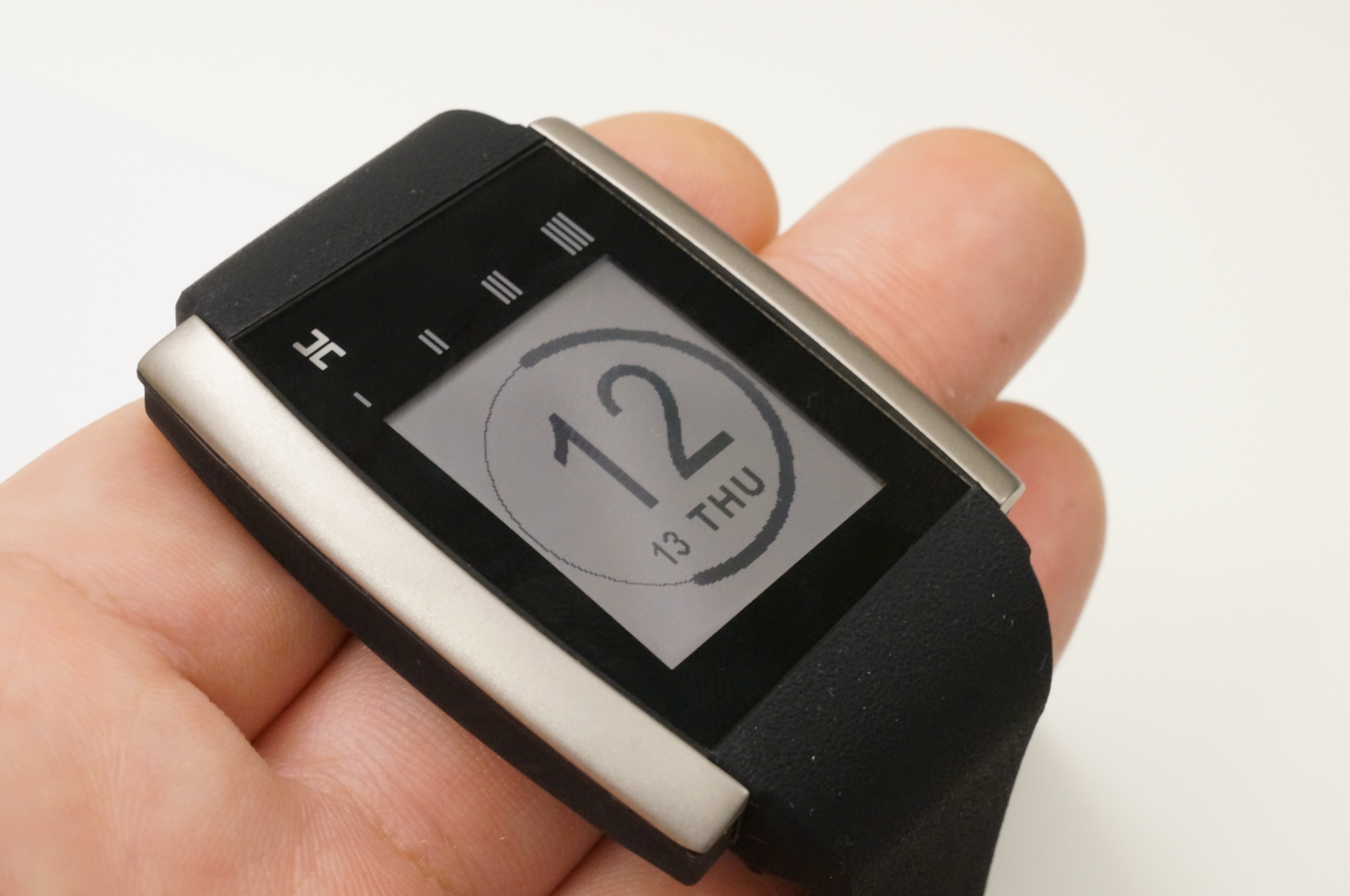 HOT Watch Curve model by PHTL featured a unique directional speaker and microphone on the strap allowing for private calls to be answered directly on the watch. Holding the watch up to one's face allowed the sound to bounce off the palm of a hand and into an ear.